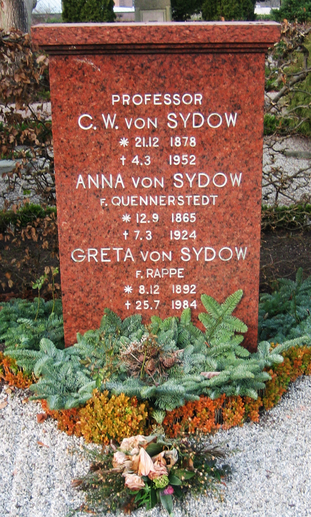 Grave of swedish professor Carl Wilhelm von Sydow (1878-1952). Photo taken at Norra kyrkogården, Lund, Sweden 090111 by the uploader.